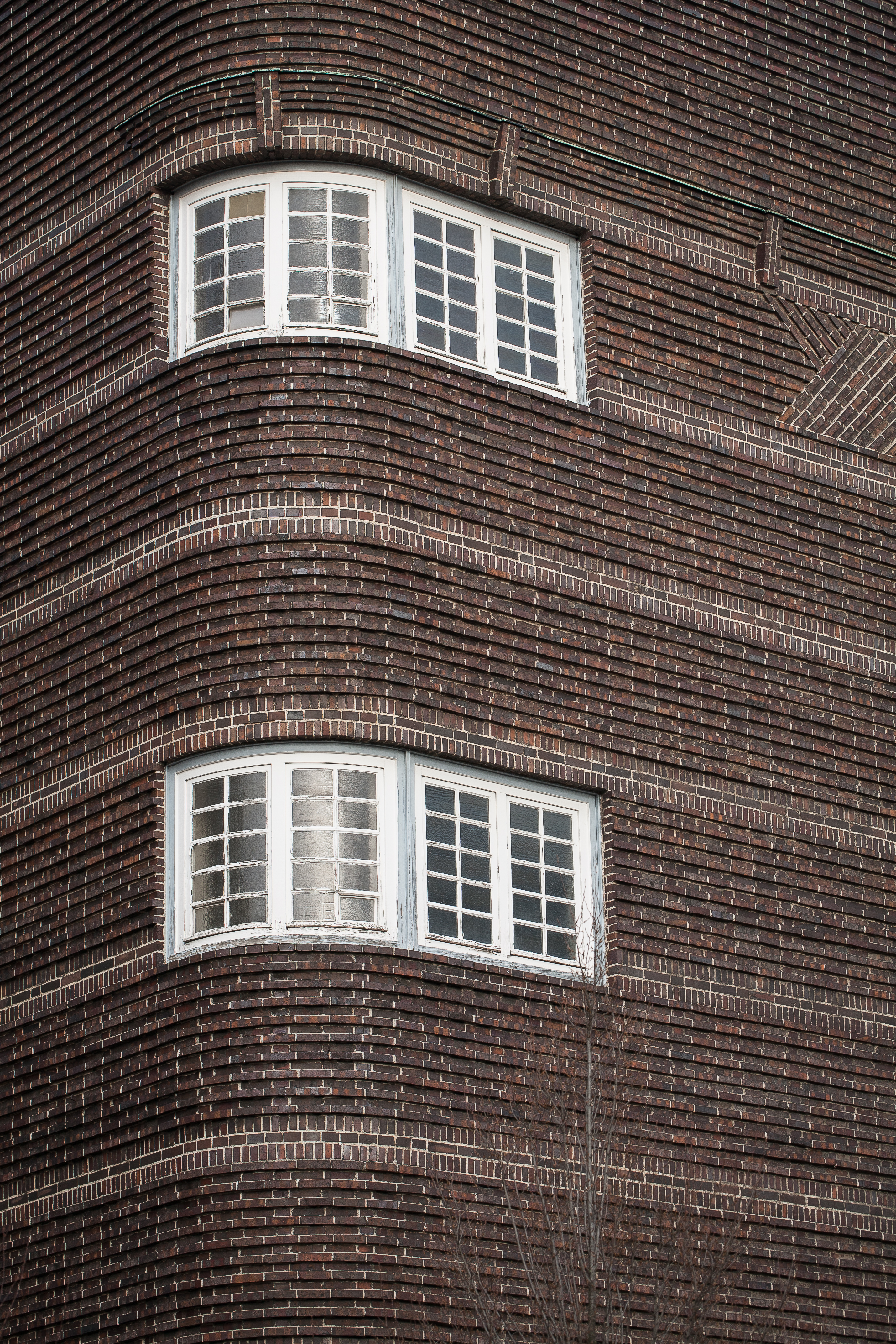 Expressionistric facade at the workshop building of the state theater in Hanover, Germany.